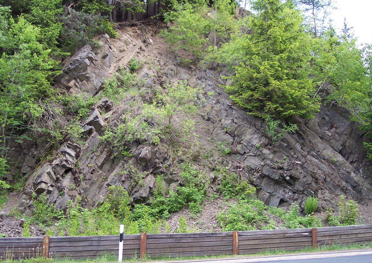 Folded proximal flysch with thick beds of greywacke (Early Carboniferous, Clausthal Kulm Fold Belt, NW Hartz Mountains, Central Germany).